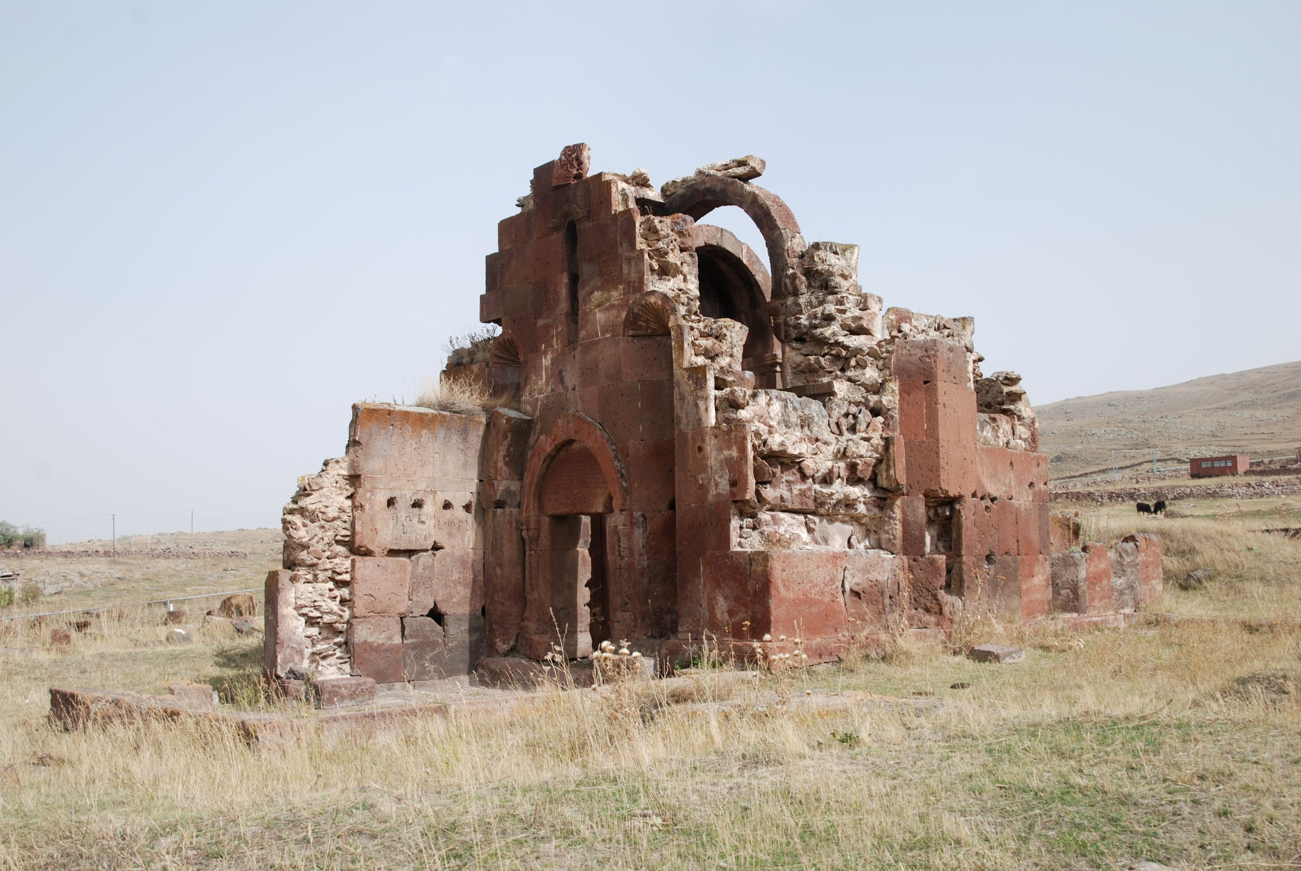 Makaravank near Pemzashen